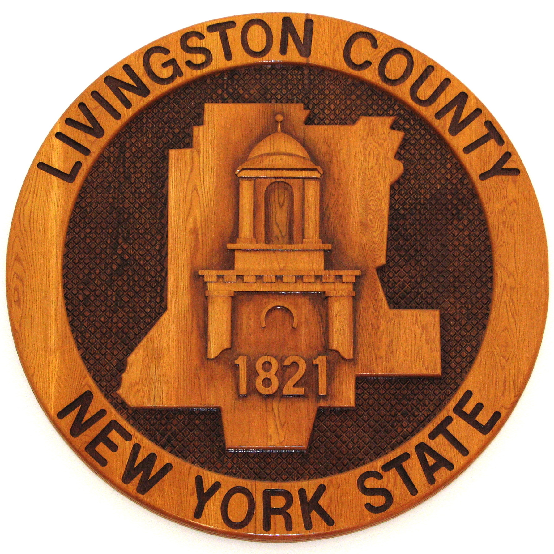 The Seal of Livingston County in New York. This particular wood rendering is located above the doors to the Board of Supervisors' room in the County Government Building in Geneseo.